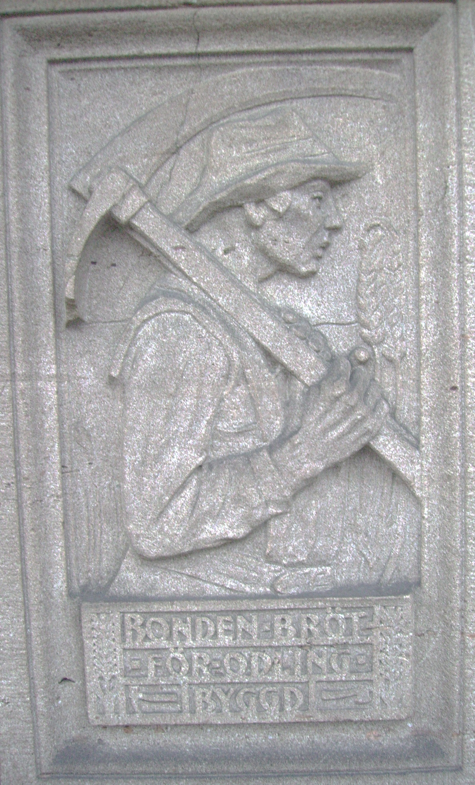 Picture of detail on Nordiska museet depicting agriculture.